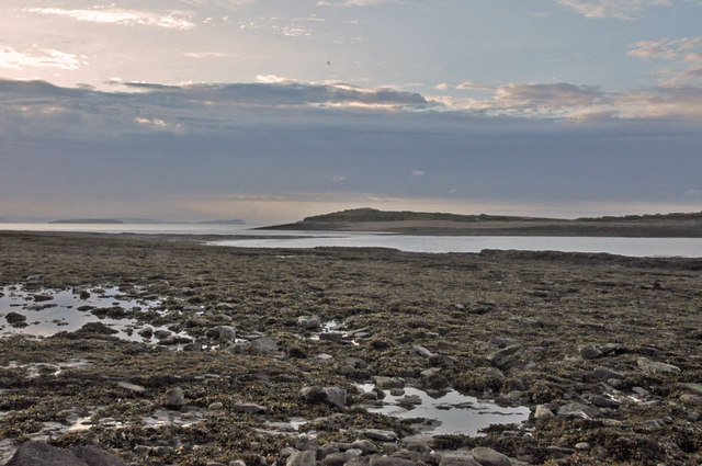 Easterly point of Sully Island The causeway linking the island to Swanbridge is now inaccessible because of the incoming tide.